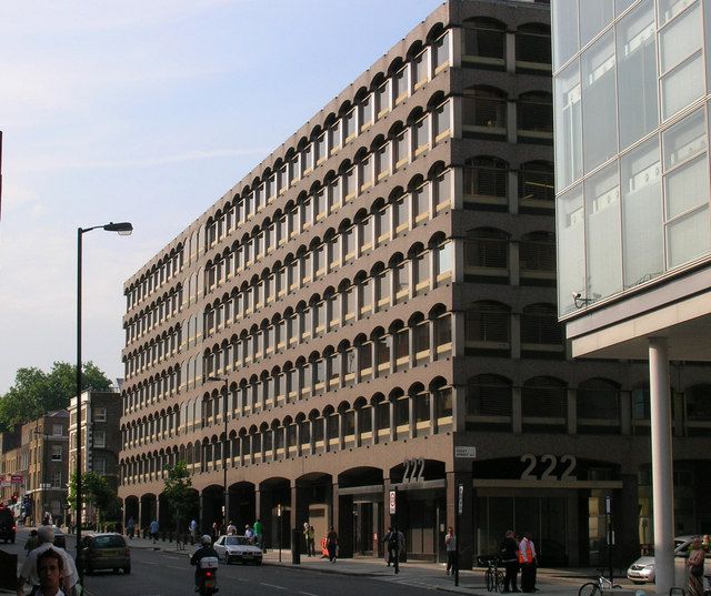 222 Grays Inn Road at Junction of Coley Street, London WC1